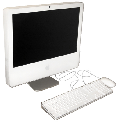 An iMac G5 (Front Row model with integrated iSight) on white background. Based on Image:Apple iMac G5 with iSight.jpg, which was taken from under the following license: License: CC-BY-2.0